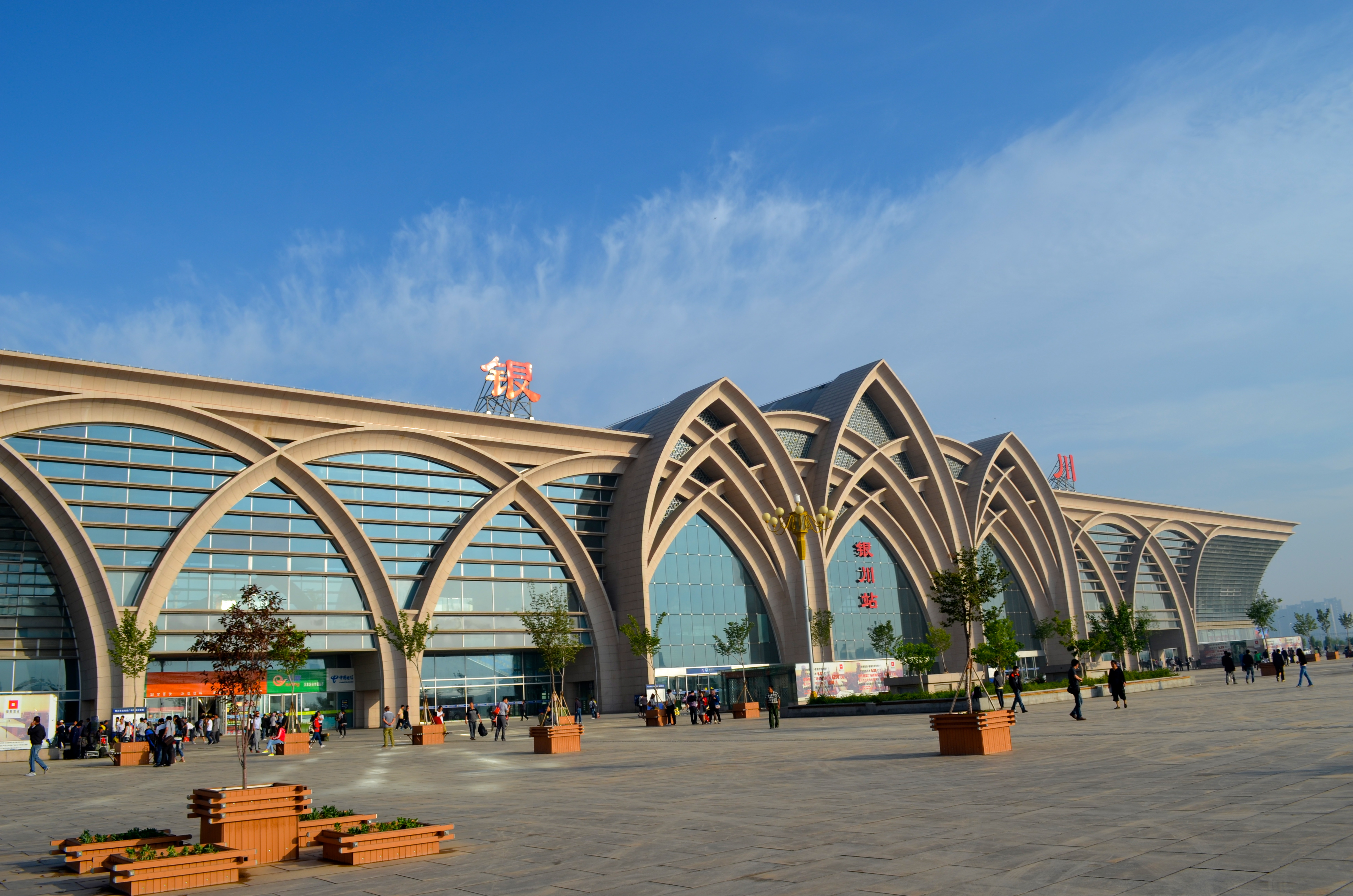 Yinchuan Railway Station